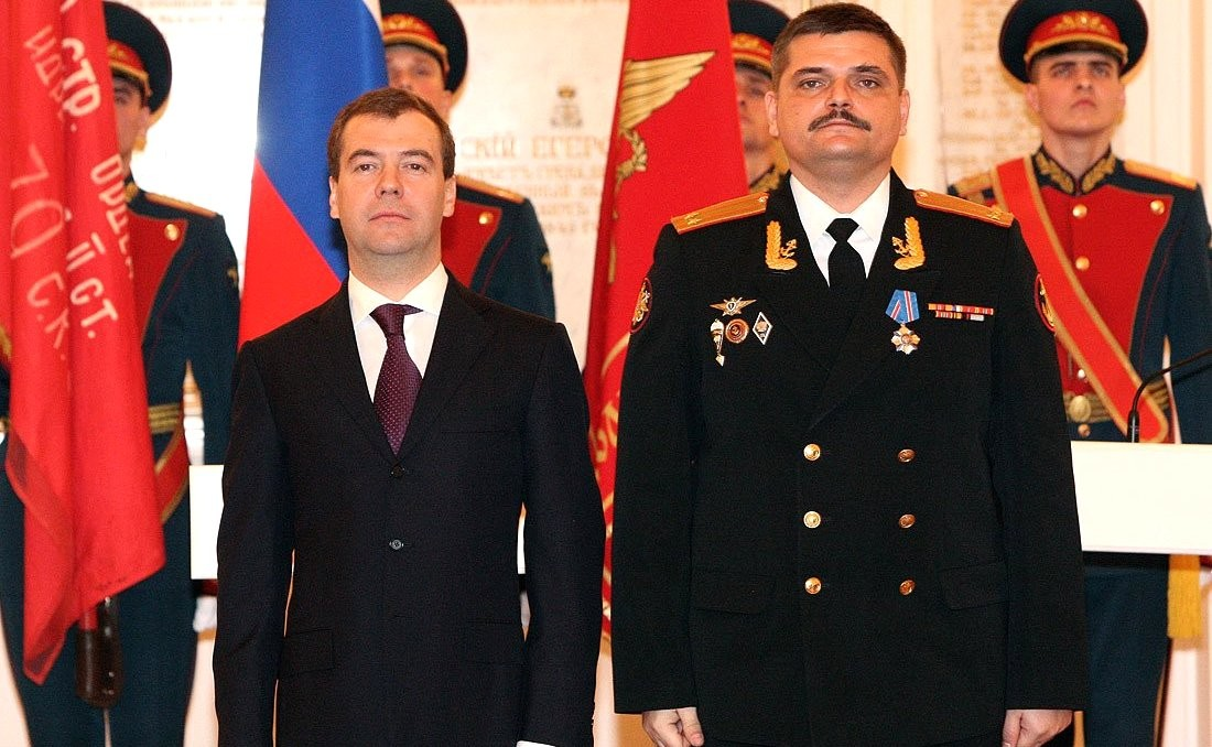 Lieutenant colonel Oleg Kovalev (right) being awarded the Order "For Military Merit" by Russian President Dmitry Medevedev (left) on 19 February 2010 at the Grand Kremlin Palace in Moscow.